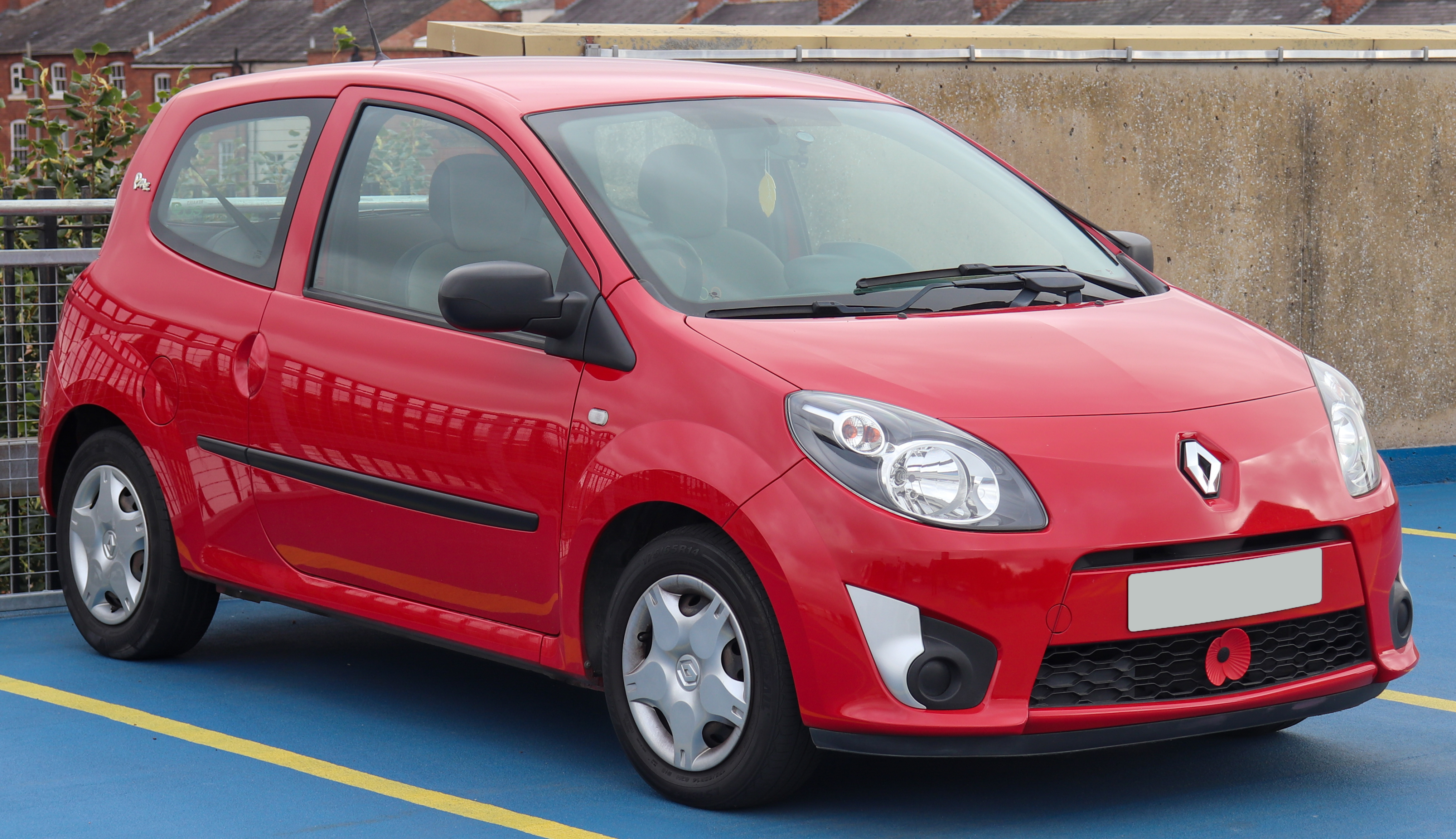 2011 Renault Twingo Pzaz 1.1 Taken in Leamington Spa